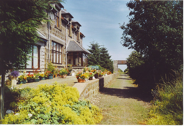 Mormond Station. The old station building is now a house on the Formartine & Buchan Way, the long distance path, between Strichen and Fraserburgh. The old railway bridge here still carries mainly farm traffic.